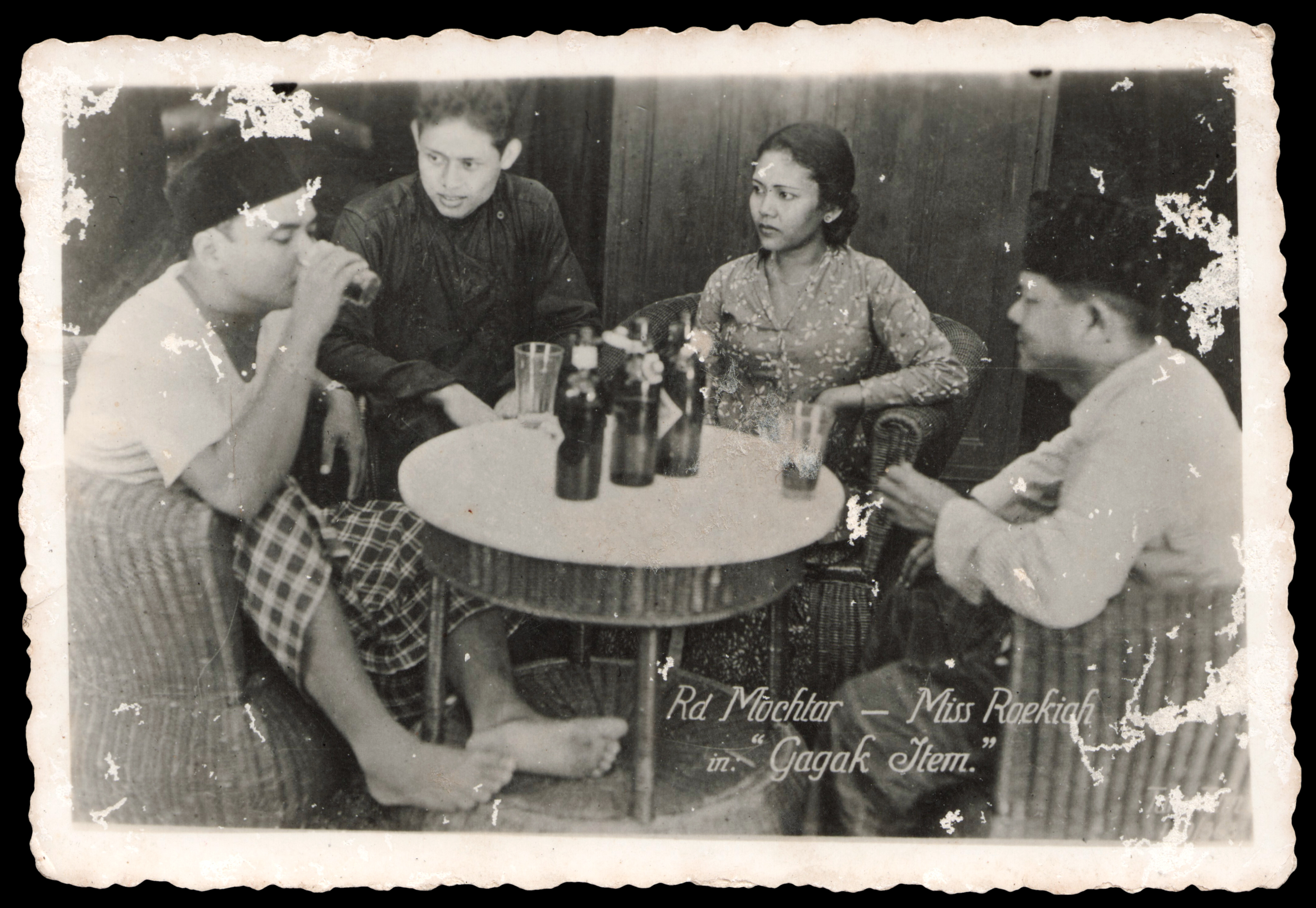 People drinking beer, scene from Gagak Item (1939)